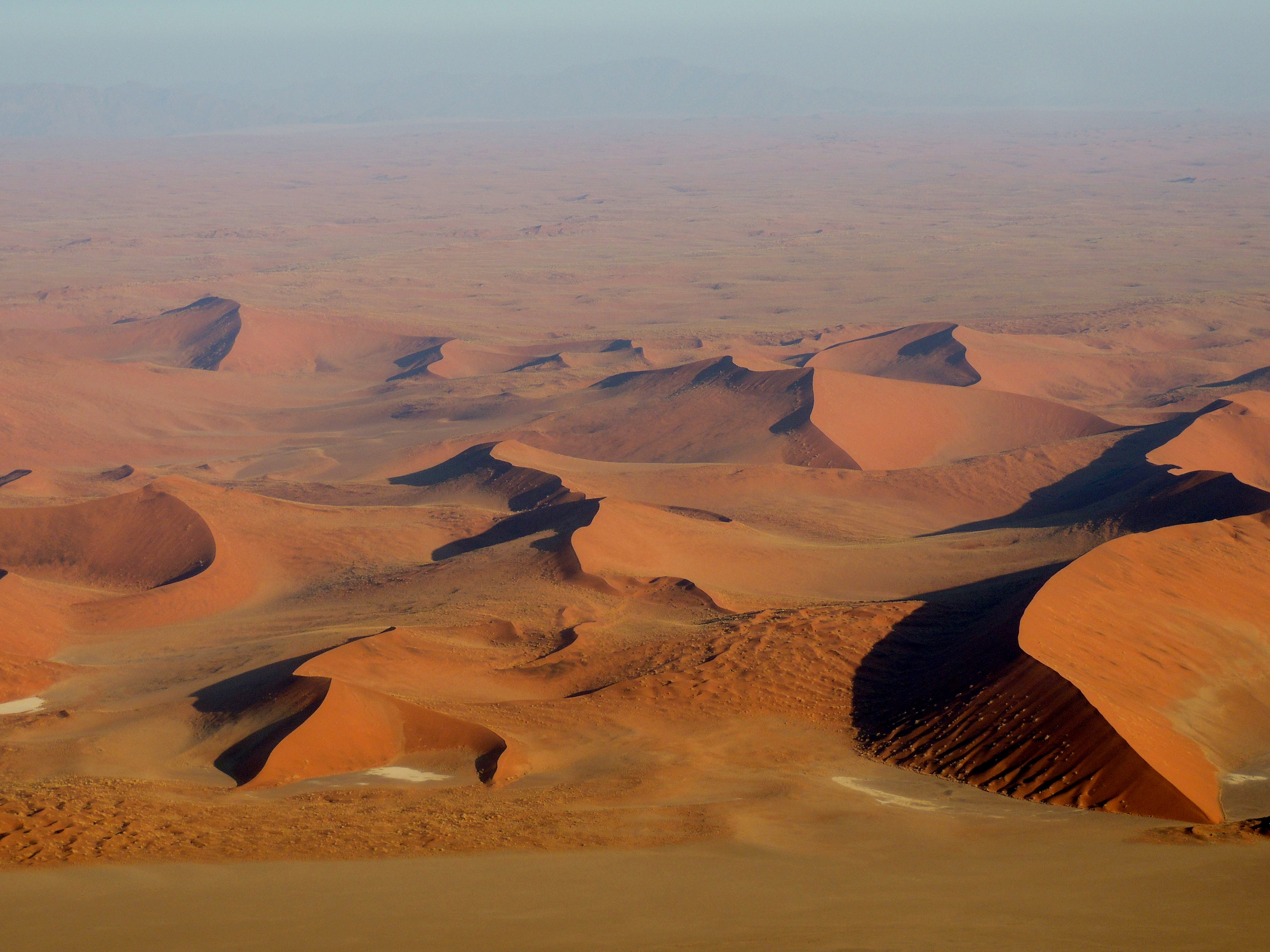 Namib desert 1